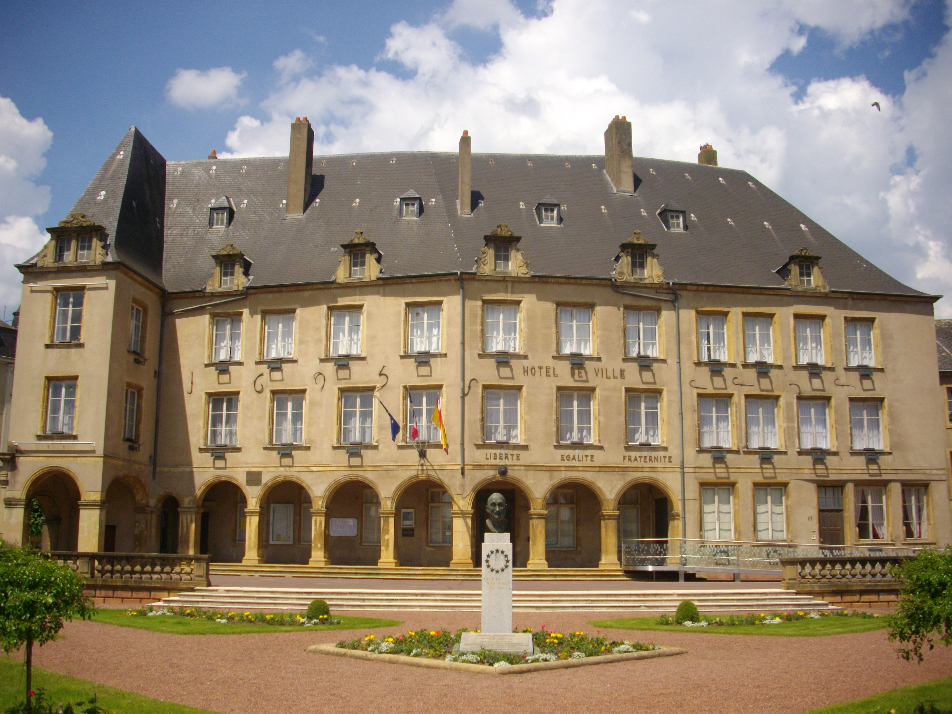 Clarisses' convents (current town hall) of Thionville (Moselle, France) .